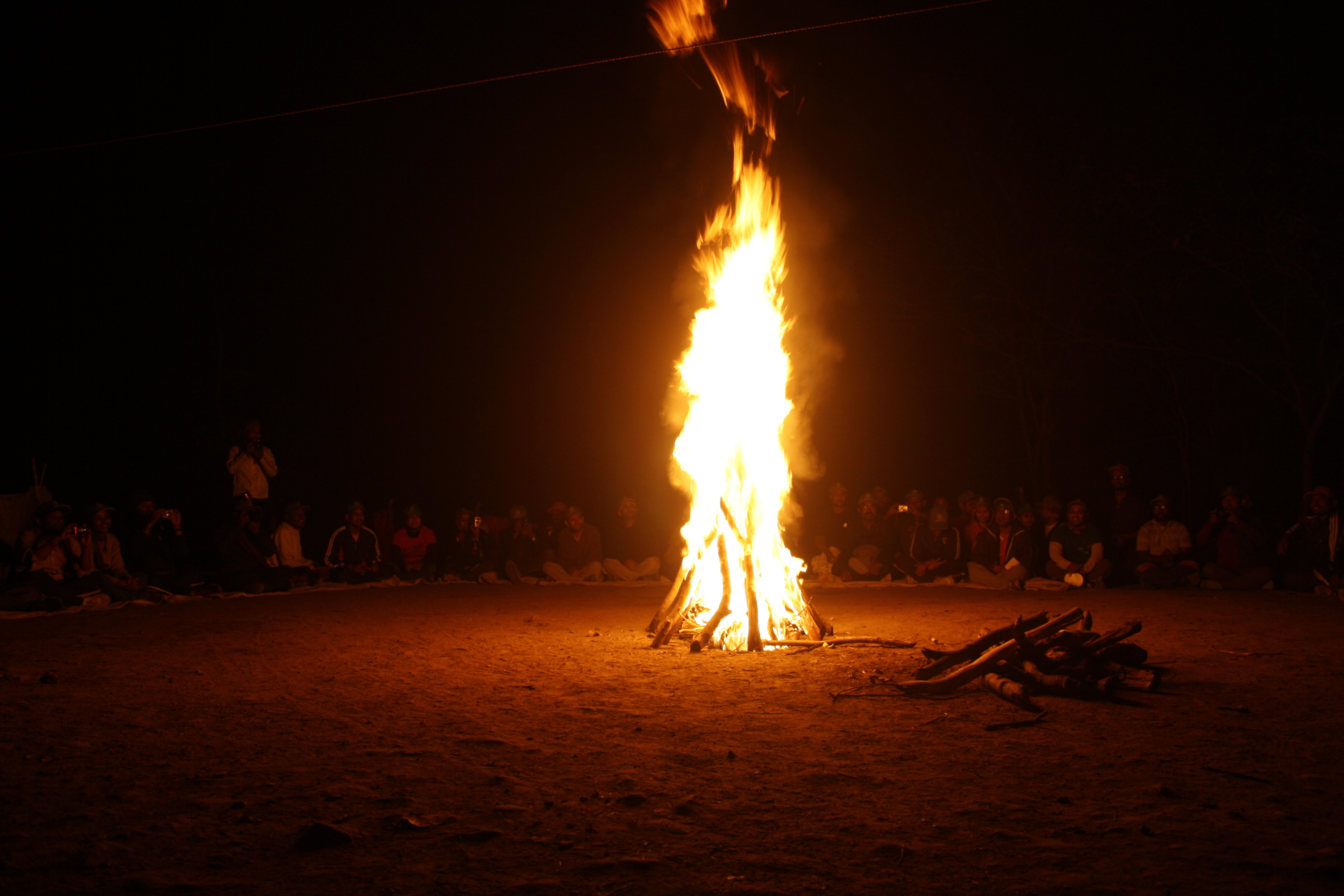 29RCCMAK - Campfire at Susunia base camp and Photo has been takn during Basic Rock Climbing Course by MAK (Mountaineers Association of Krishnanagar) at Susunia Hill, Bankura, West Bengal